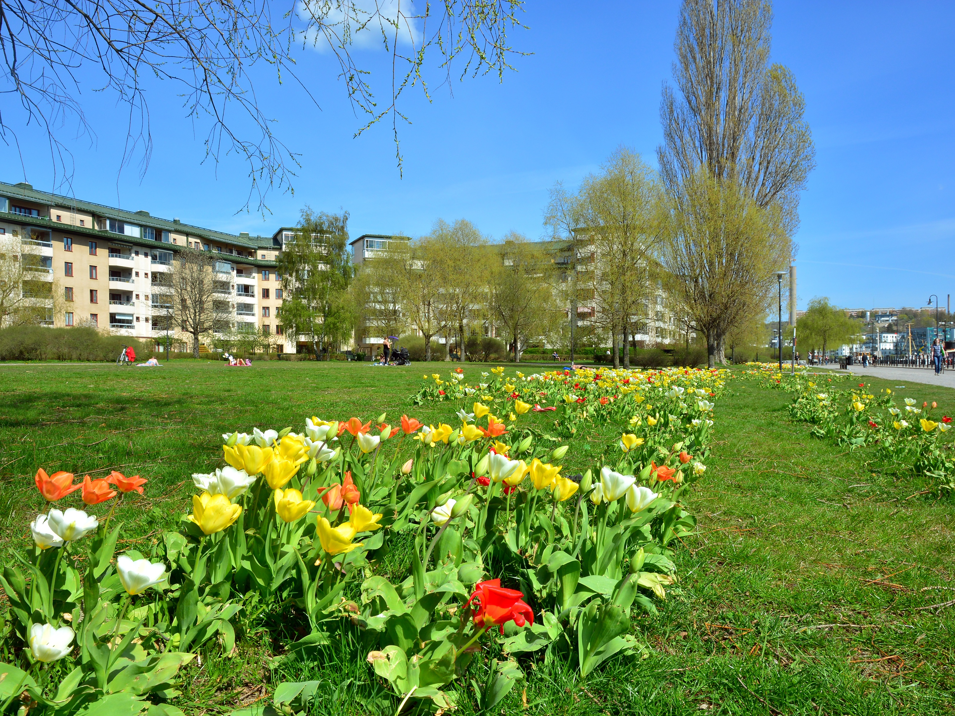 Vintertullsparken on Södermalm in Stockholm, Sweden.